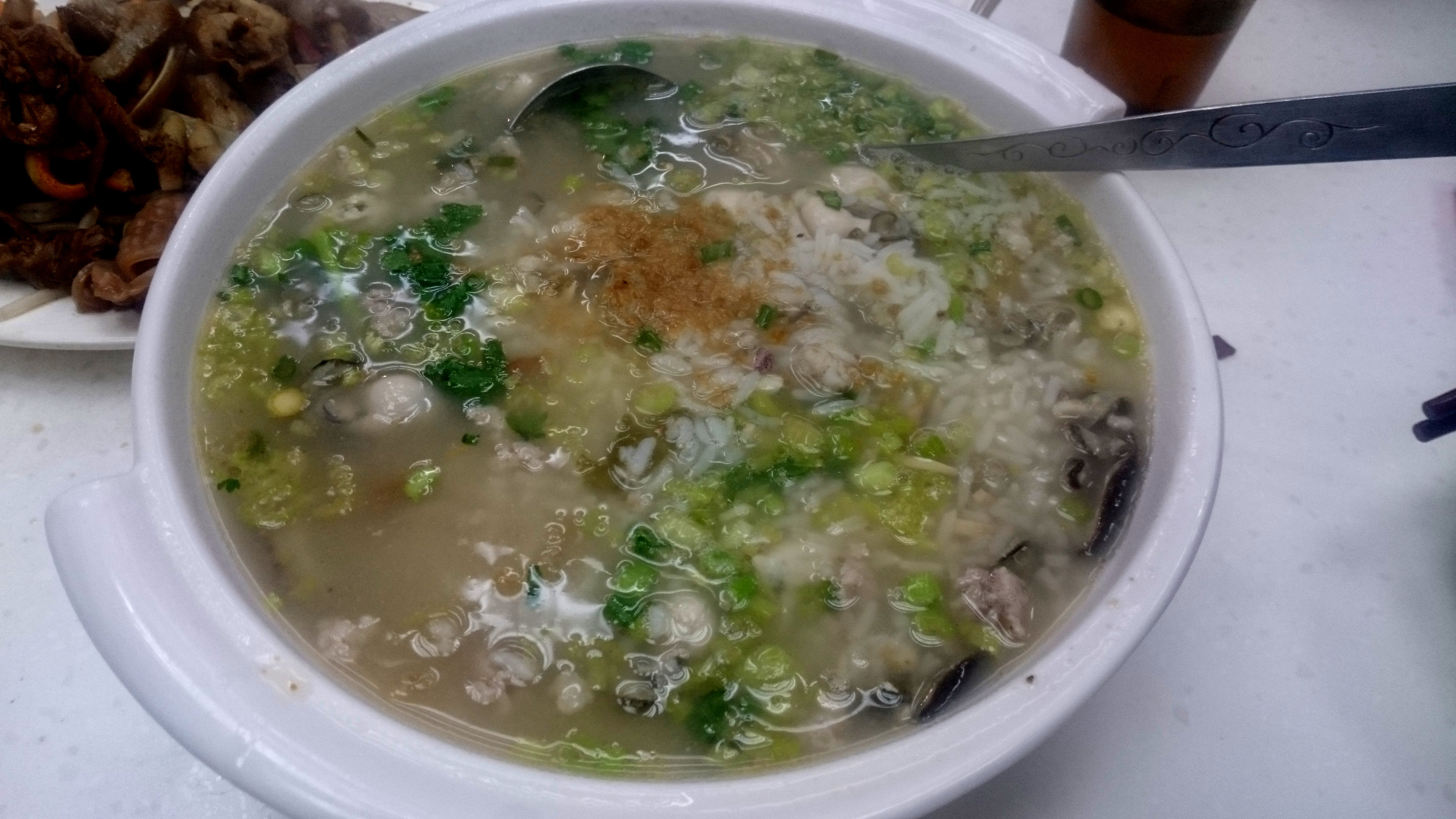 Oyster Meat Porringer